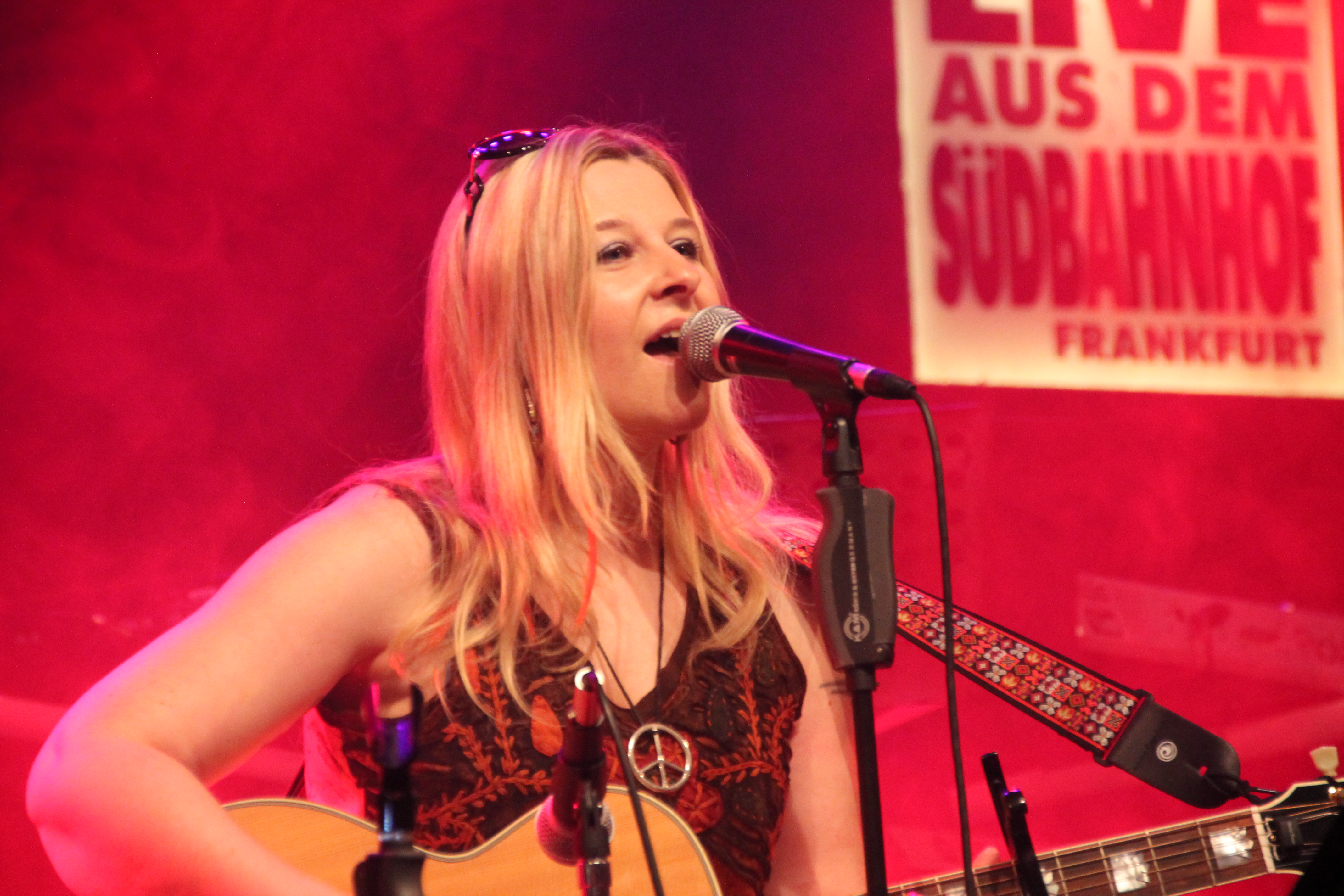 Danny June Smith live at the "Südbahnhof Frankfurt" (January 2016)